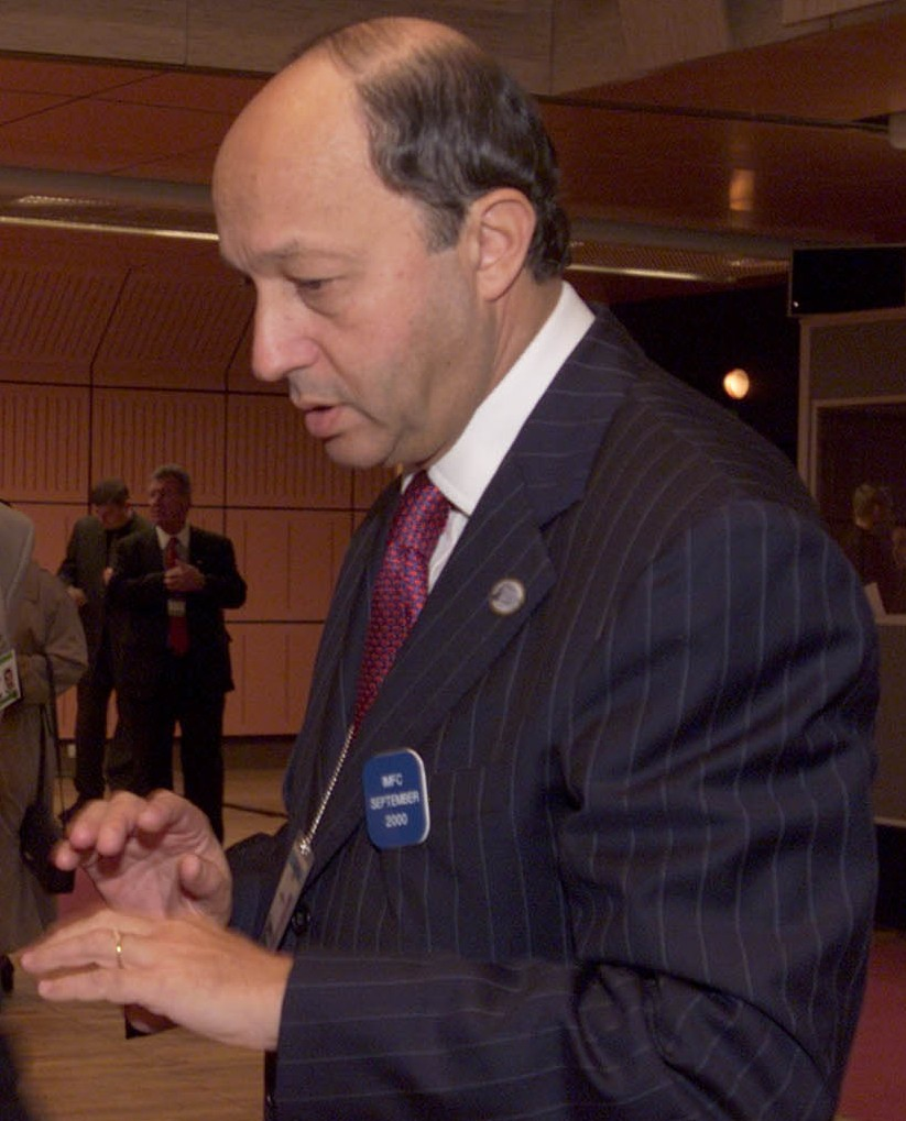 German Finance Minister Hans Eichel and French Finance Minister Laurent Fabius at the IMFC conference in Prague, 2000.